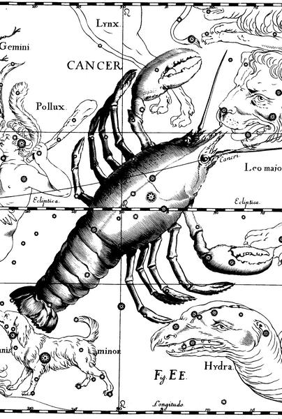 The Cancer constellation from Uranographia by Johannes Hevelius. The view is mirrored following the tradition of celestial globes, showing the celestial sphere in a view from "ouside"